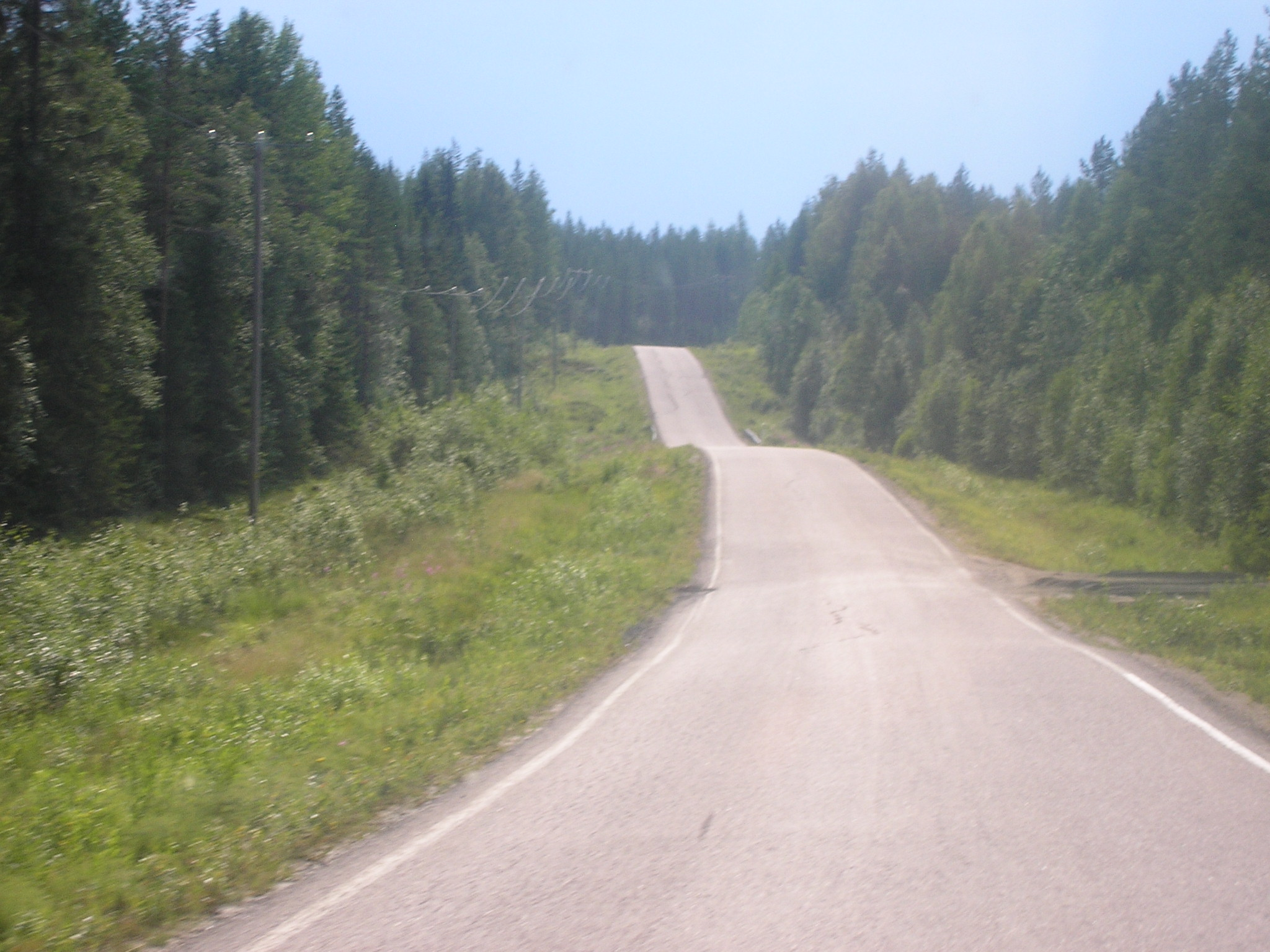 Regional road 508 in Juuka